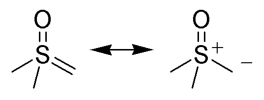 Description: Chemical structure of dimethyloxosulfonium methylide. Author, date of creation: selfmade by ~K, 27 November 2005. Source: - Copyright: Public domain. (PD) Comments: high-resolution b/w PNG; ChemDraw / The GIMP.